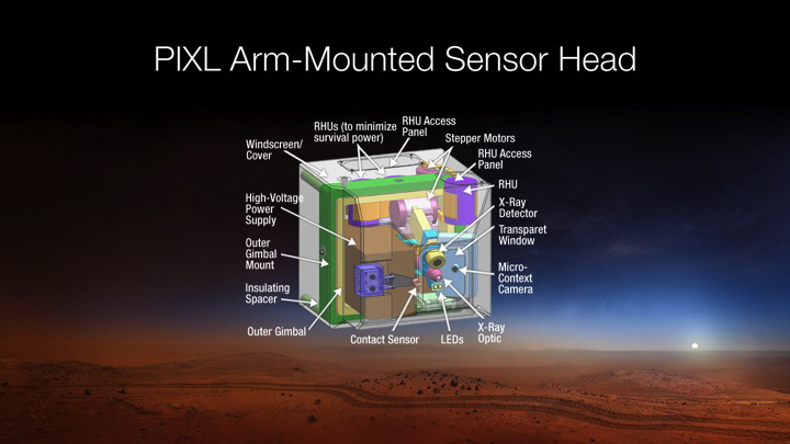 PIA18406: X-Ray Instrument for Mars 2020 Rover is PIXL This diagram depicts the sensor head of the Planetary Instrument for X-RAY Lithochemistry, or PIXL, which has been selected as one of seven investigations for the payload of NASA's Mars 2020 rover mission. PIXL is an X-ray fluorescence spectrometer that will also contain an imager with high resolution to determine the fine-scale elemental composition of Martian surface materials. Mars 2020 is a mission concept that NASA announced in late 2012 to re-use the basic engineering of Mars Science Laboratory to send a different rover to Mars, with new objectives and instruments, launching in 2020. NASA's Jet Propulsion Laboratory, a division of the California Institute of Technology, Pasadena, manages NASA's Mars Exploration Program for the NASA Science Mission Directorate, Washington.